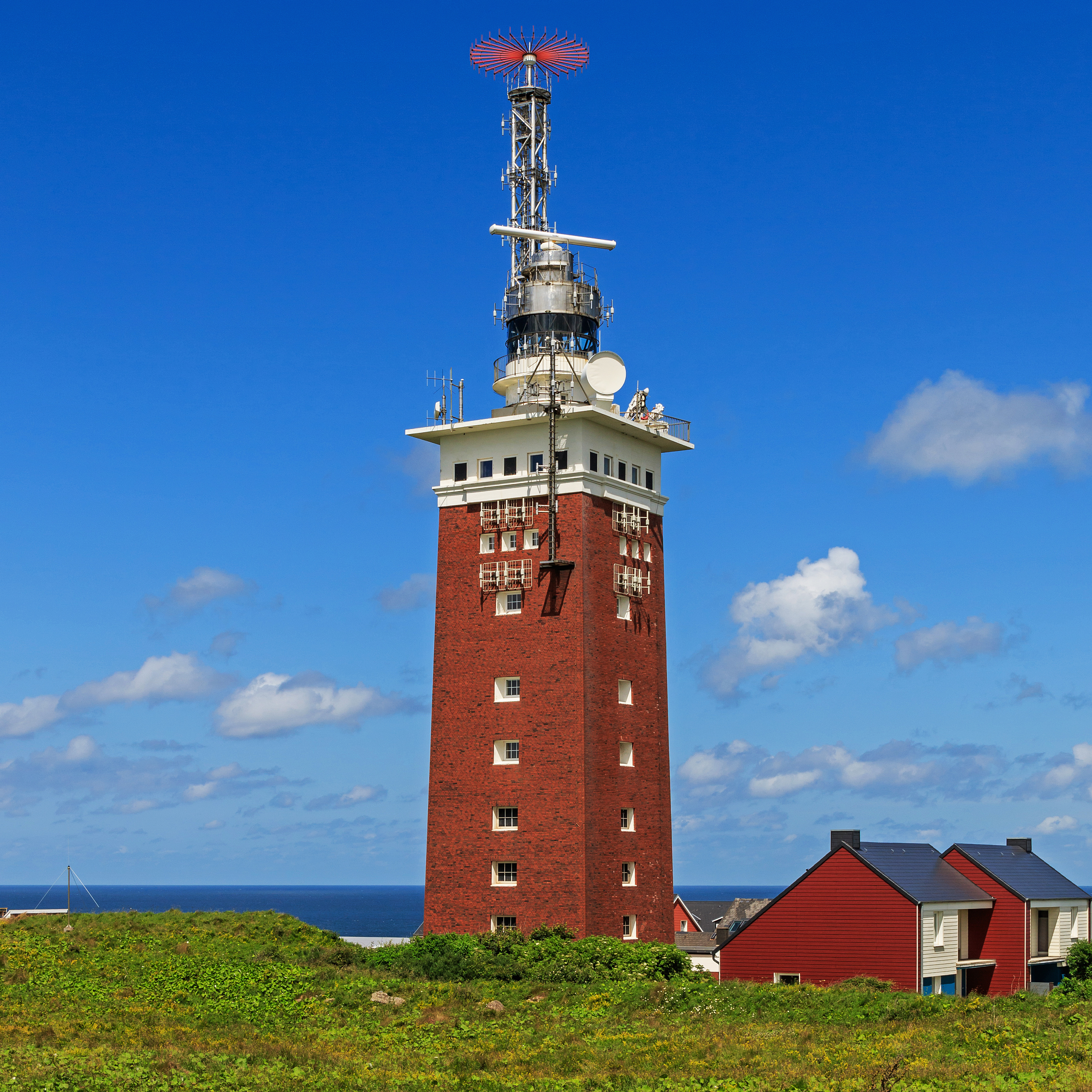 The lighthouse at the upper island of Heligoland, Germany